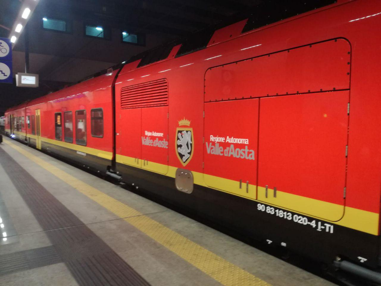 Logo on the side of Stadler BTR.813